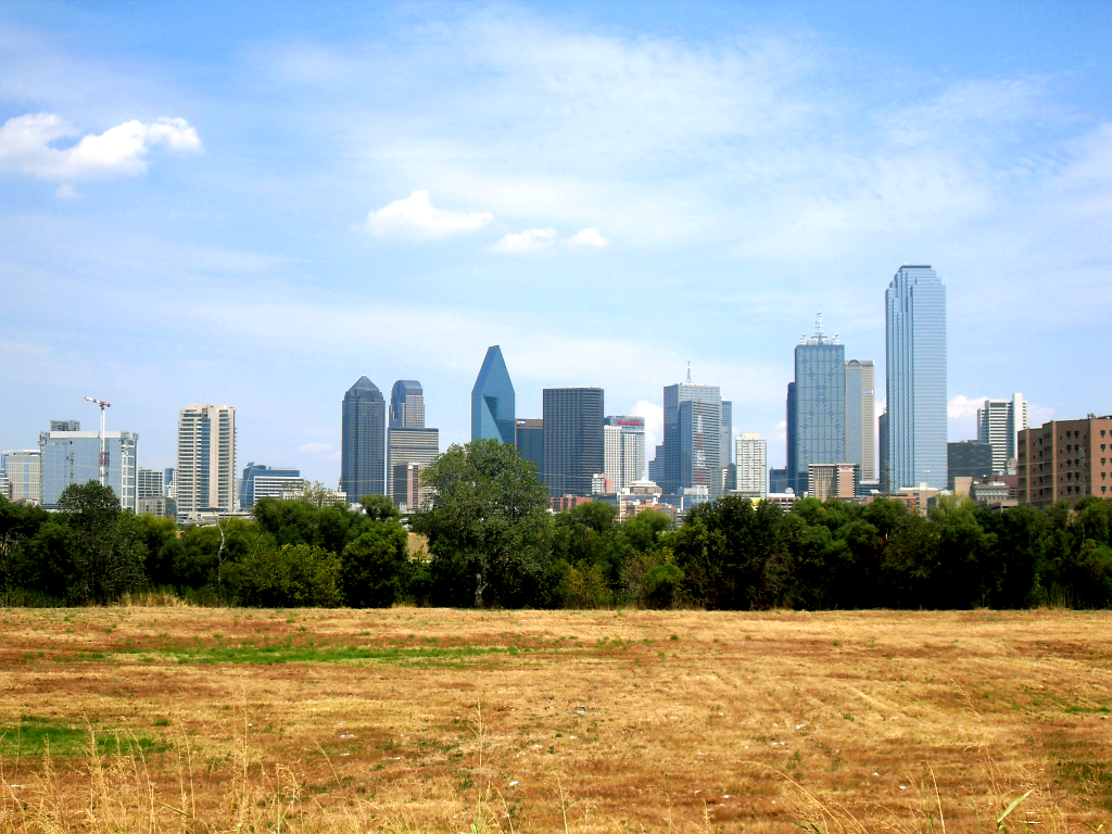 This photo shows the skyline of Dallas from a Trinity River flood levee on a hot summer afternoon. The grass in the floodplain is customarily brown many months of the year due to the coolness of winter and the extreme heat of summer. The hot summer months are typically marked by the absence of much rain, which also factors into the brownness of the grass.